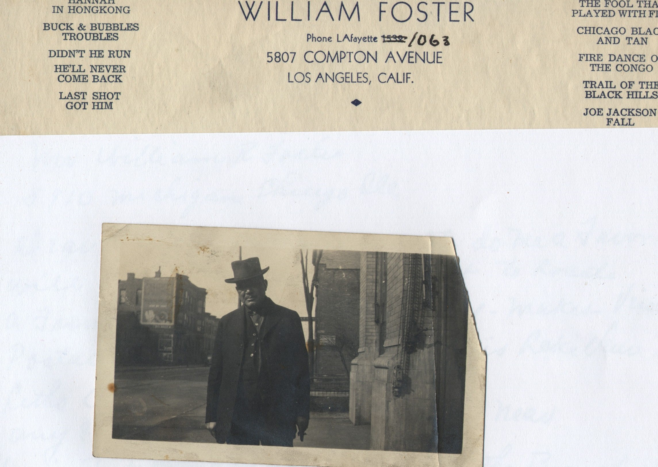 Photograph of William Foster of Foster Photoplay Company and personal letter head for William Foster